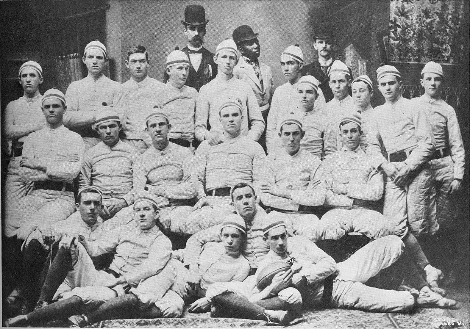 This was taken in the spring of 1892. It is Auburn's first football team. Pictured are, left to right, front row: Clifford LeRoy Hare, Professor Charles H. Barnwell, Rufus Thomas "Dutch" Dorsey, Jr., Richard Billup Going, Captain F. A. Lupton. Second row: Robert Mailard Stevens, H. H. Smith, Henry T. Debardeleben, Professor Anthony Foster McKissick, Culver, Alexander Downling McLendon. Third row: Walter Evan Richards, Arnold Whitfield Herren, Seaborn Jesse Buckalew, Francis Marshall Boykin, George William Dantzler, Union Anderson Cullbreath, George Y. McRae, Eugene Hamilton Graves, Raleigh Williams Greene, David Edwin Wilson, Charles Henry Smith. Back row: Professor George F. Atkinson, Bob "Sponsor" Frazier (mascot), Coach Dr. George Petrie.[1][2][3]